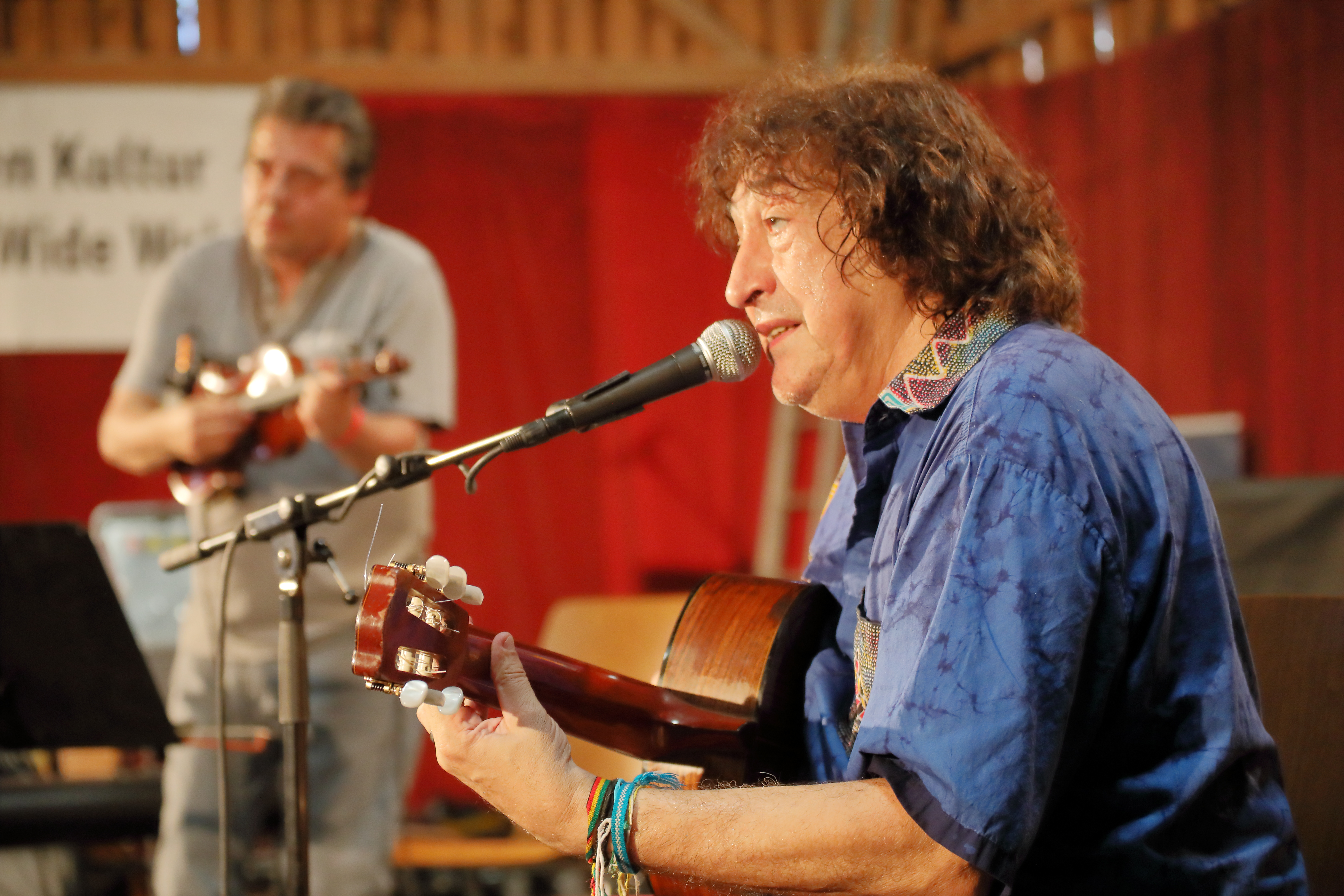 Guitar player Toninho Horta from Brazil and violin player Rudi Berger from Austria in concert at INNtöne Jazzfestival 2019.